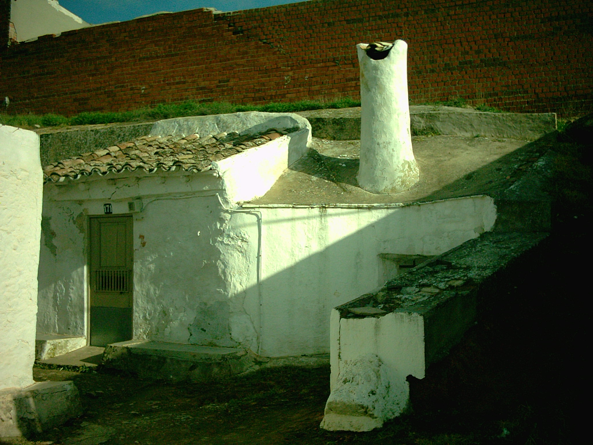 House-cove in Santa Cruz de la Zarza (Toledo, Spain)